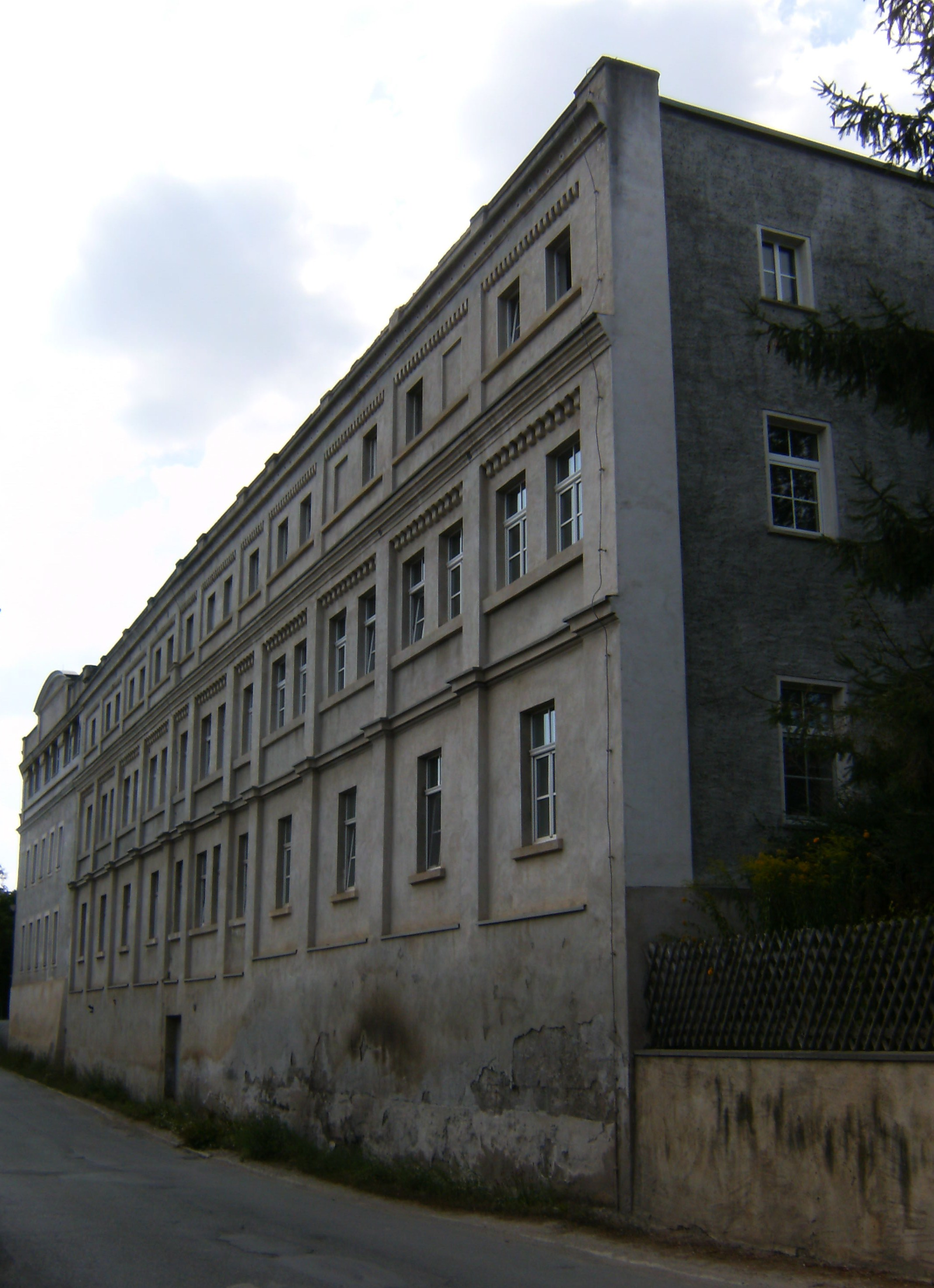 Gera Roschütz, further porcelain manufactury.